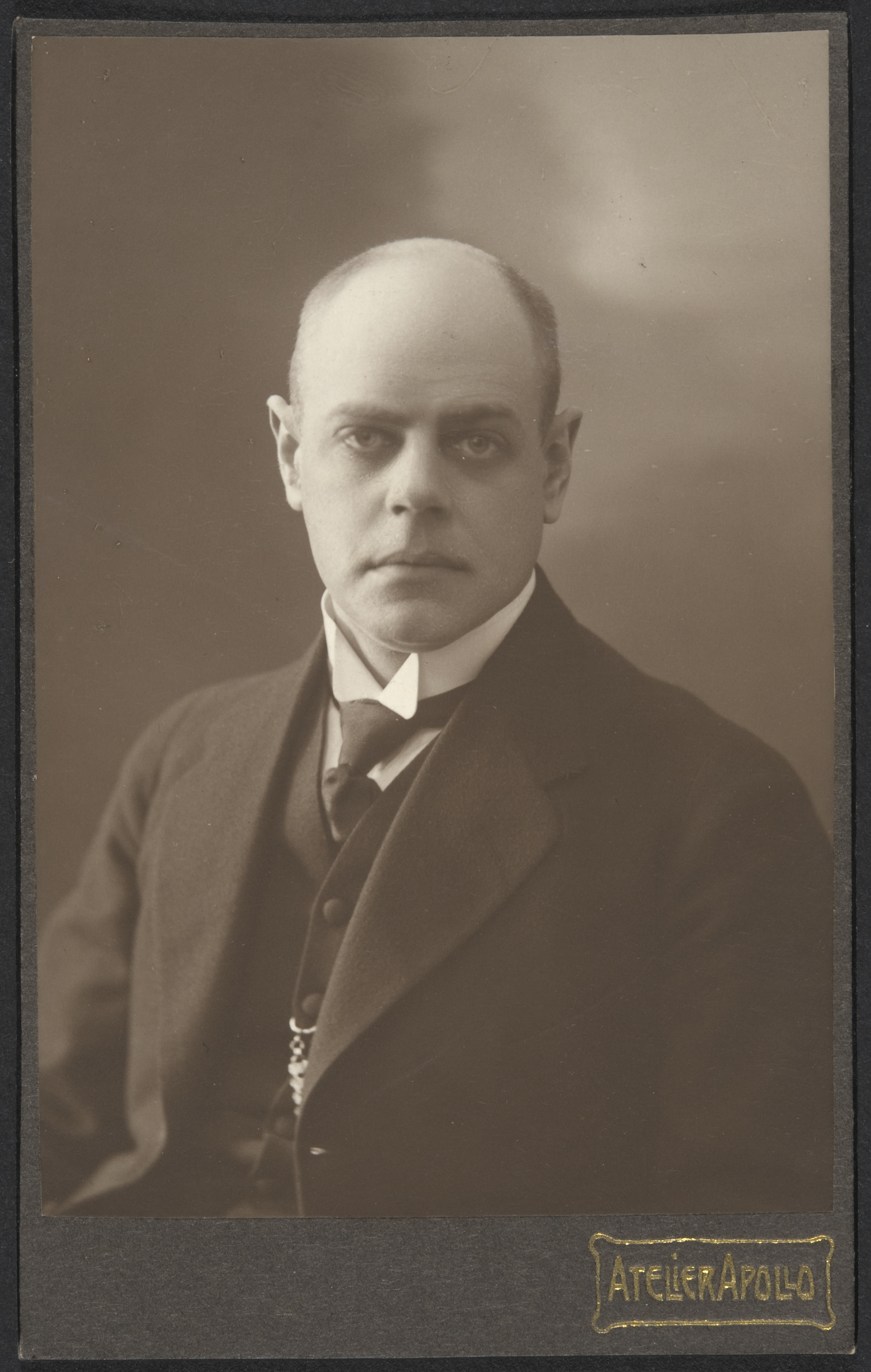 Photograph of the Finnish physician Halvar von Fieandt (1879–1936).